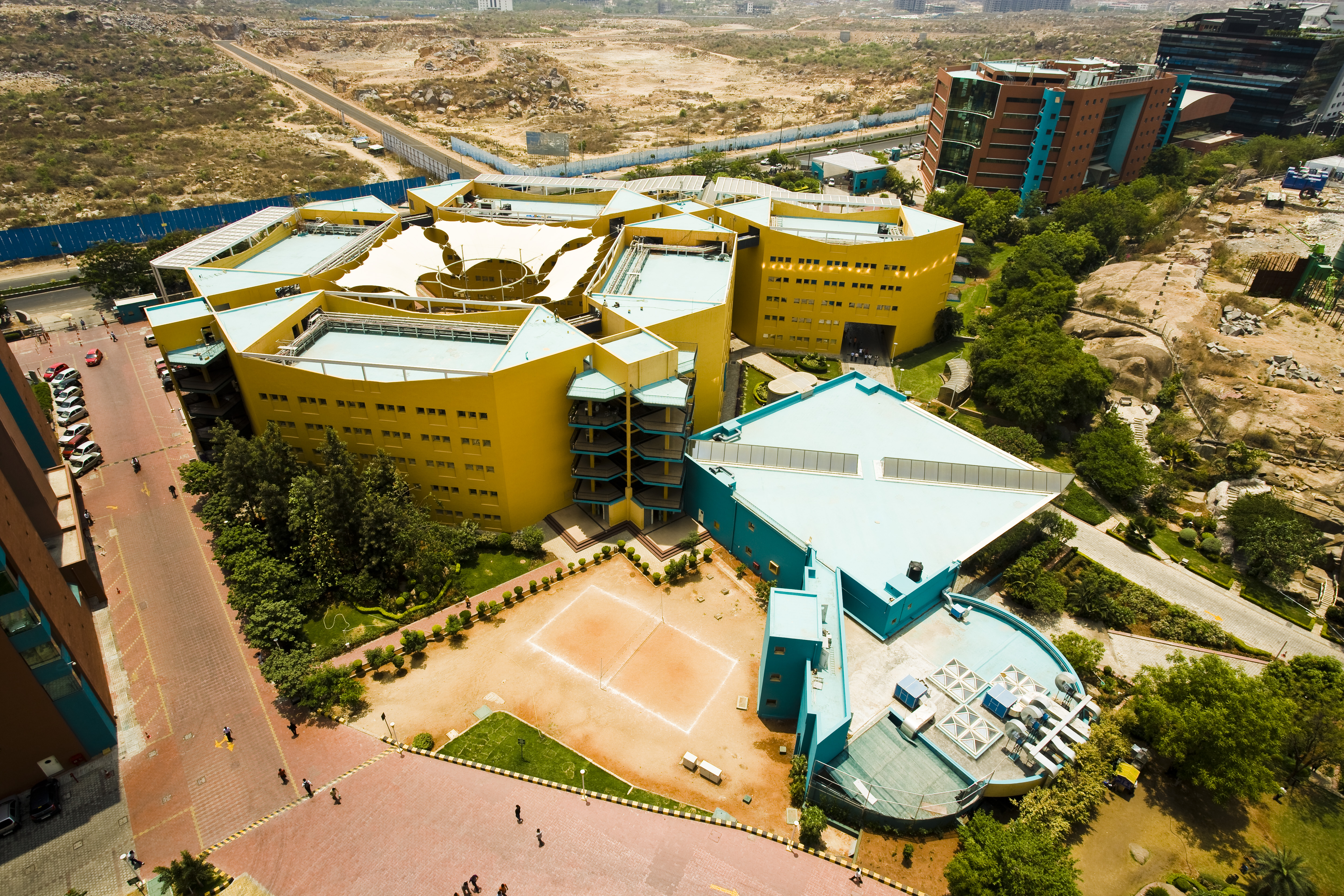 The V- Top View